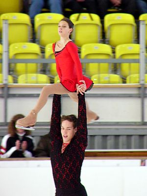 Angelika Pylkina & Niklas Hogner perform a lift during their free skate at the 2004 Junior Grand Prix event in Germany